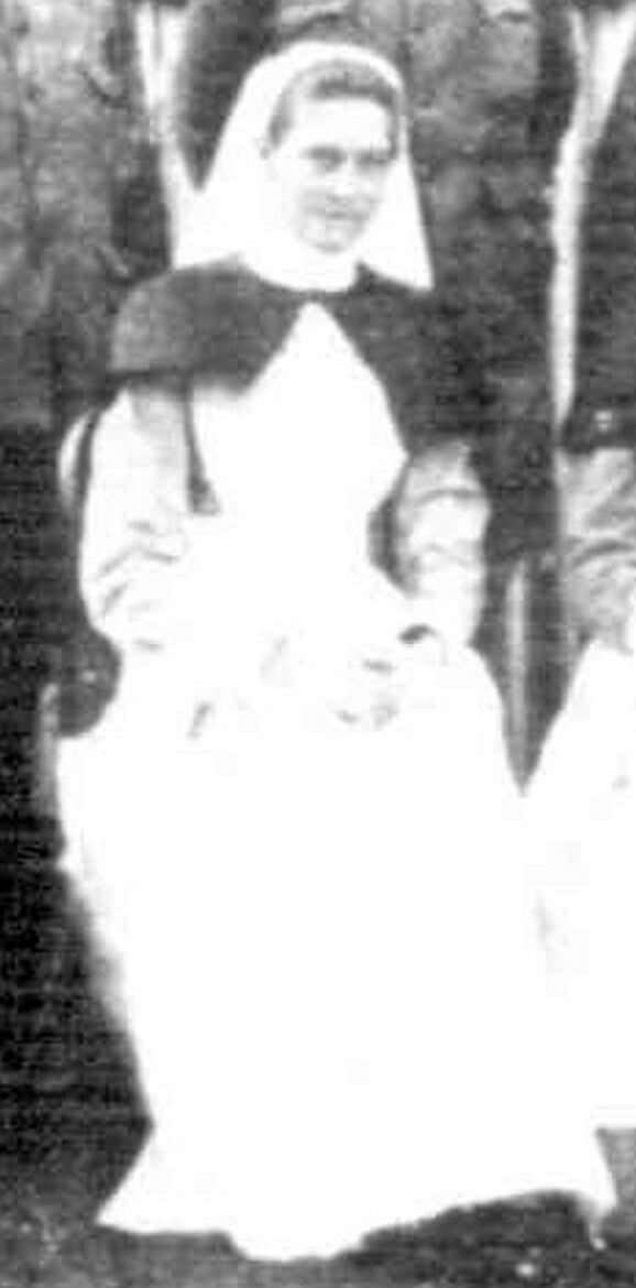 Nurse Fanny Hines was the first Australian women to die on active service. She succumbed to pneumonia while nursing wounded soldiers in the Boer War